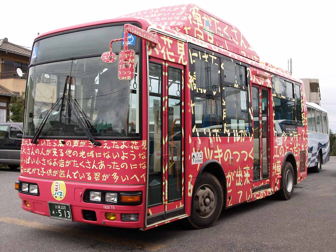 Fleet of "Koto Bus", a Toride City Community route bus. Model: Mitsubishi Fuso Aero Midi ME License plate: IGT200A-513（土浦200あ・513） Place: Kanto Railway Terahara station (Kanto Railway Bus Toride dept.)